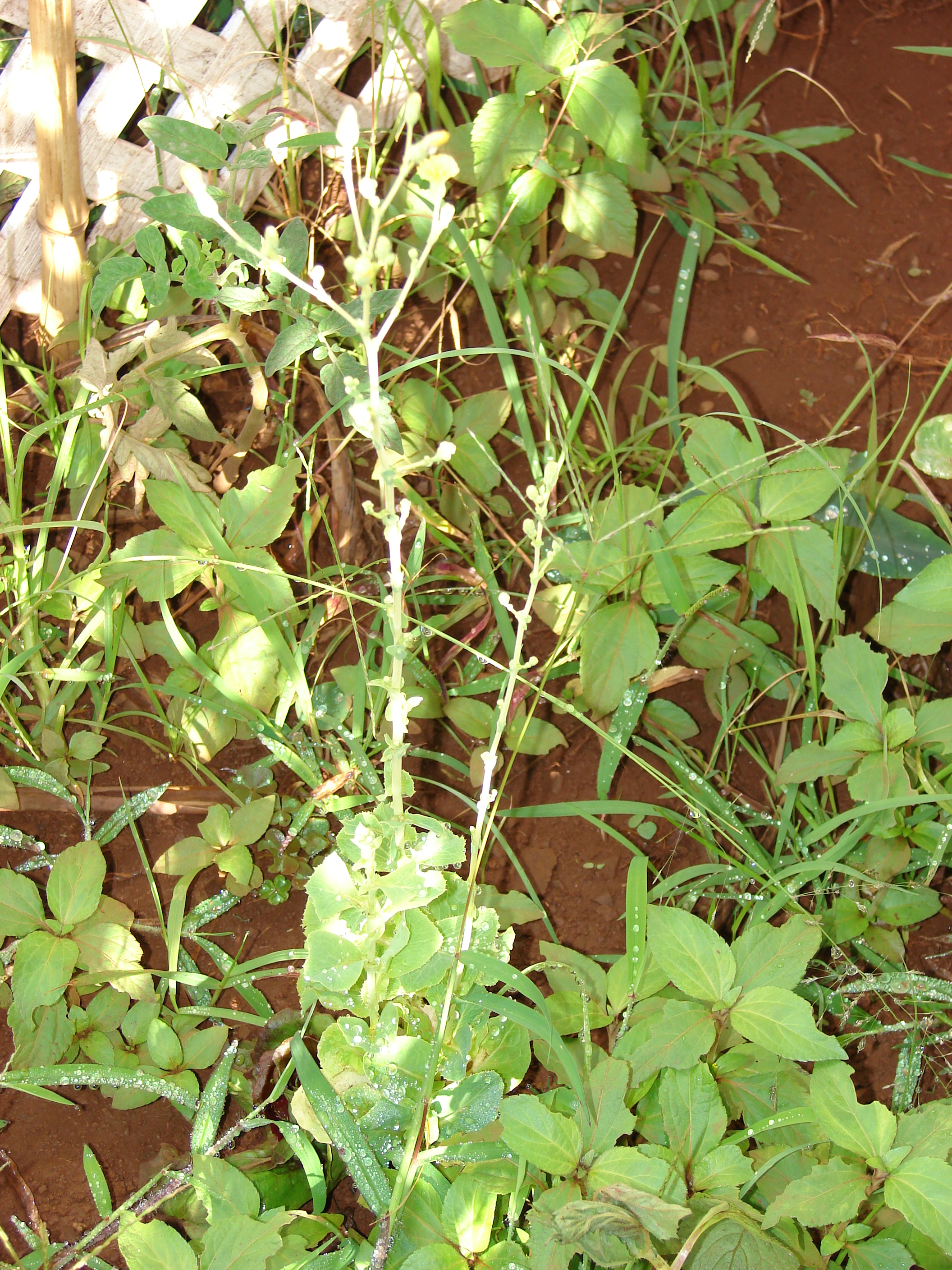 Lactuca sativa (lettuce bolting). Location: Maui, Makawao